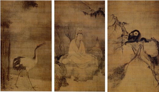 Guanyin, Monkeys, and Crane (絹本墨画淡彩観音猿鶴図, kenpon bokuga tansai kannon enkakuzu). Three hanging scrolls, 174.2 cm x 98.8 cm (Kannon), 173.9 cm x 98.8 cm (monkeys and crane, each). Ink and light color on silk. Located at Daitoku-ji, Kyoto, Japan. The scrolls have been designated as National Treasure of Japan in the category paintings.